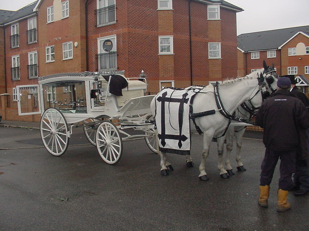 Horse hearse pulled by two Lipizzaner stalions